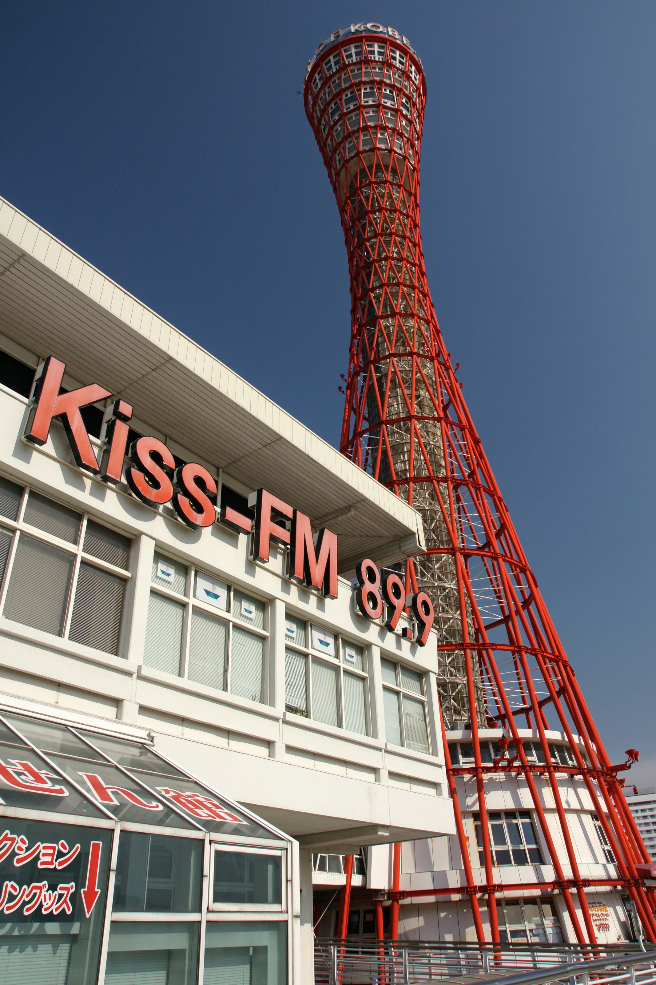 Kiss-FM KOBE Headquarters (Nakatottei Central Building), Kobe, Hyogo prefecture, Japan